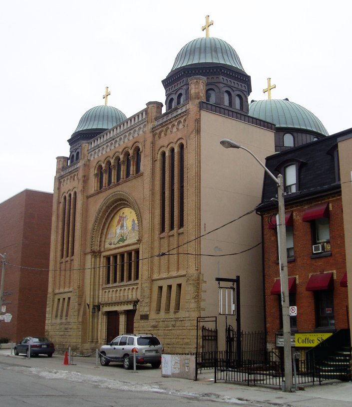 St. George's Greek Orthodox Church in Toronto, Canada.